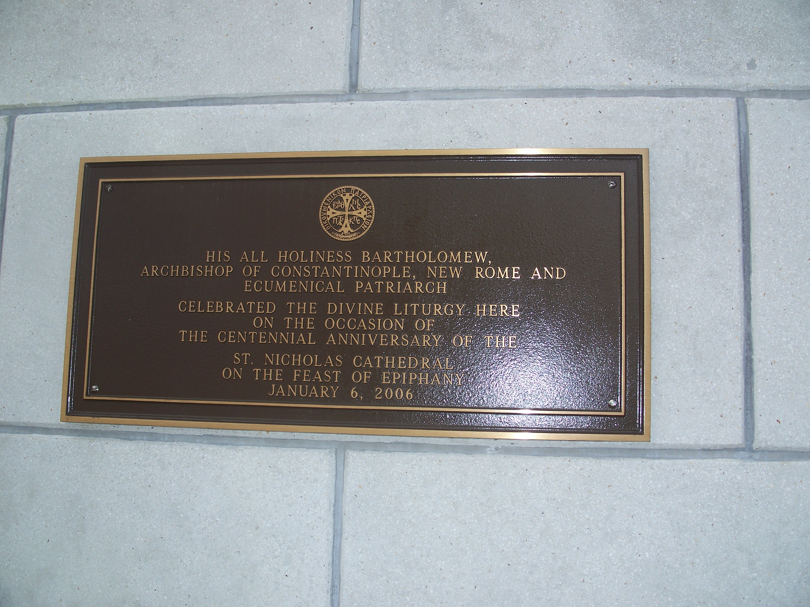 Plaque on the St. Nicholas Cathedral in the Tarpon Springs Historic District, in Tarpon Springs, Florida